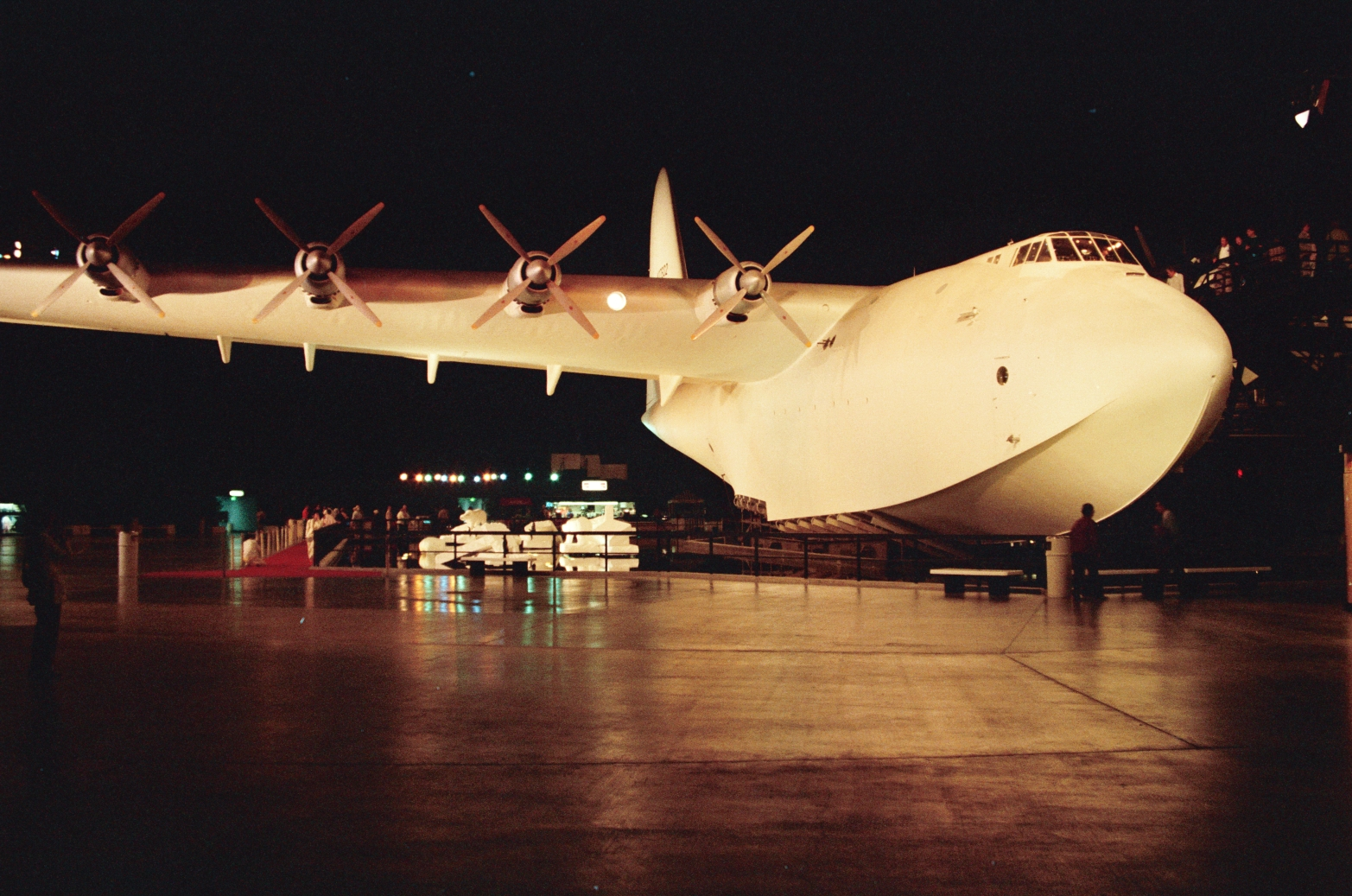 Hughes H-4 Hercules, Long Beach, CA.